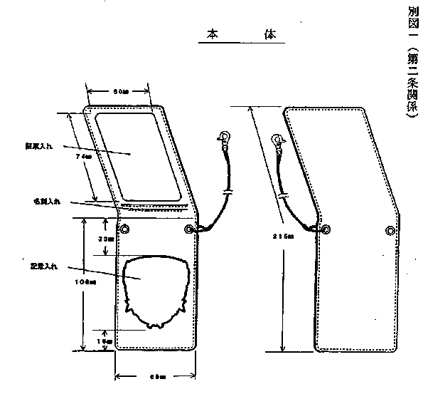 Identification card of Japanese police officers, since 2002.